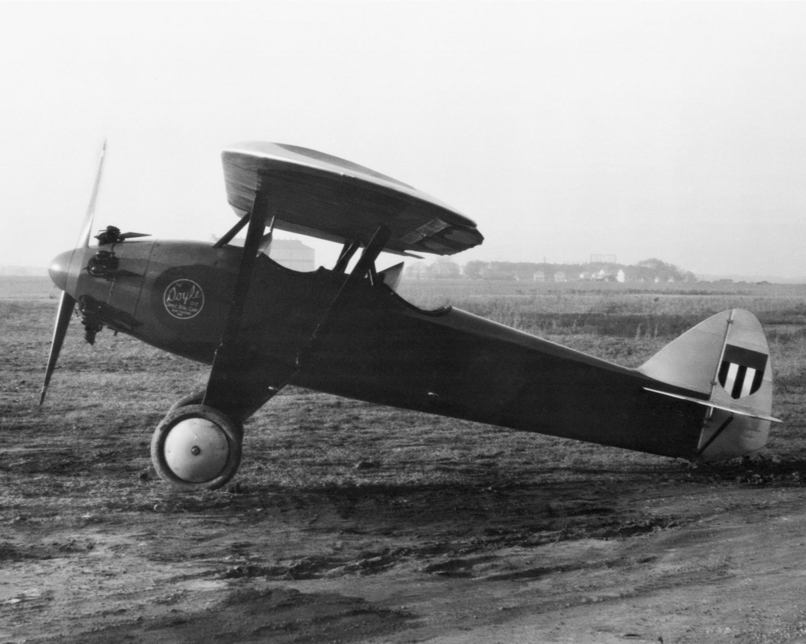 A Doyle O-2 Oriole at the Langley Aeronautical Laboratory at Hampton, Virginia (USA). The parasol-winged Doyle O-2 Oriole monoplane was flown by the NACA at Langley starting in 1929. The O-2 designation was not a military type number, but rather a company designation. The Oriole was later traded as partial payment for a Fairchild 22. The O-2 was outfitted with a fore-and-aft sliding weight in the cockpit for longitudinal stability tests.